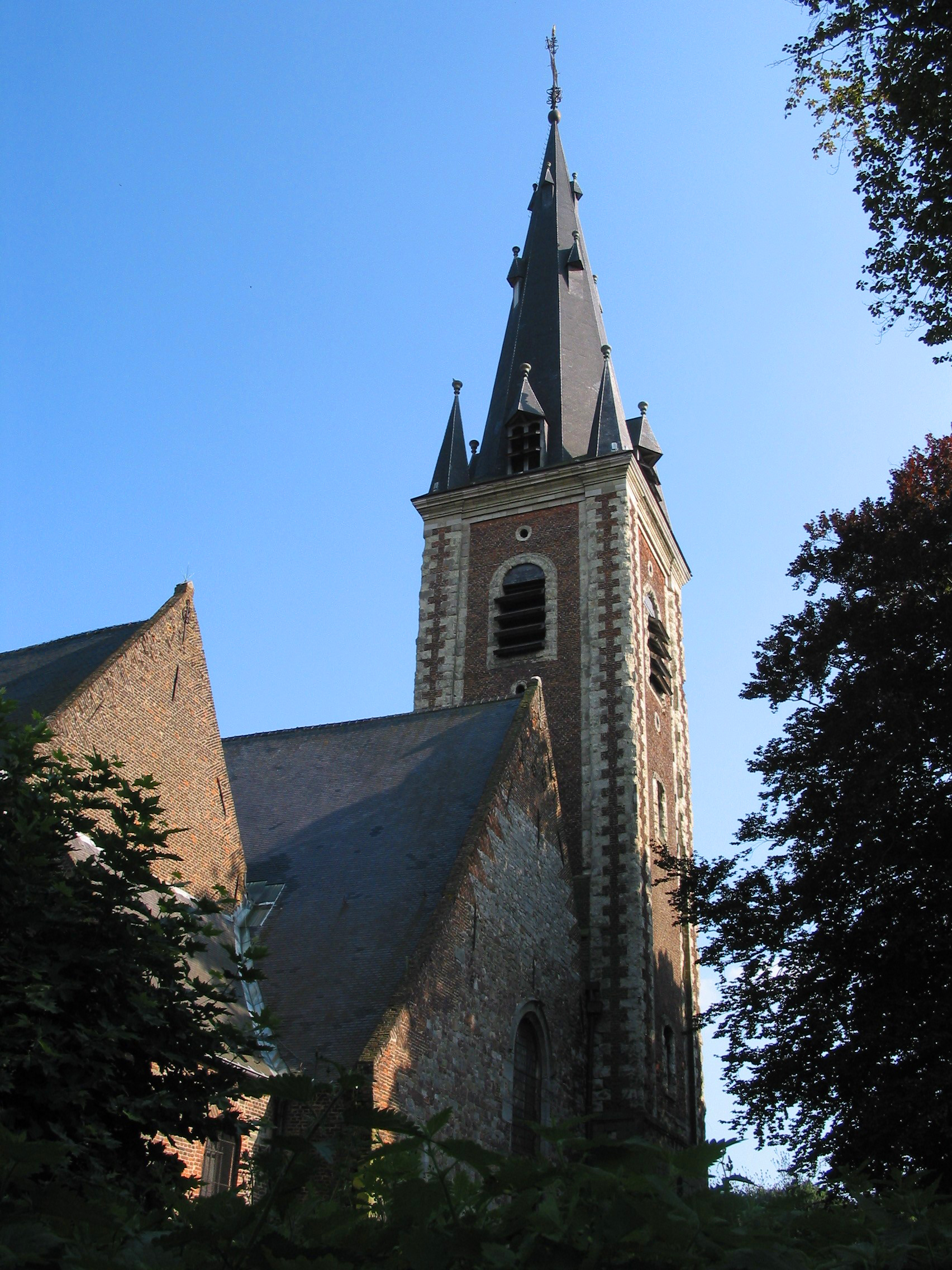 Quiévrain (Belgium), the Saint Martin’s church (XVIth century).